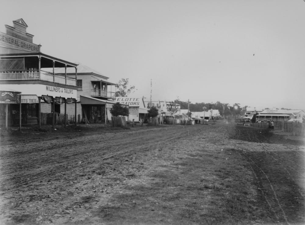 View of Brisbane Street, Beaudesert, 1908